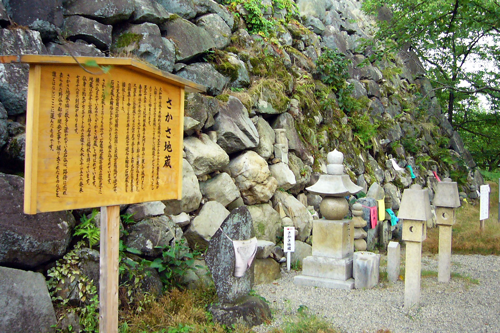 Sakasa-jizo (Upside Down Jizo) of Koriyama Castle in Yamatokoriyama, Nara